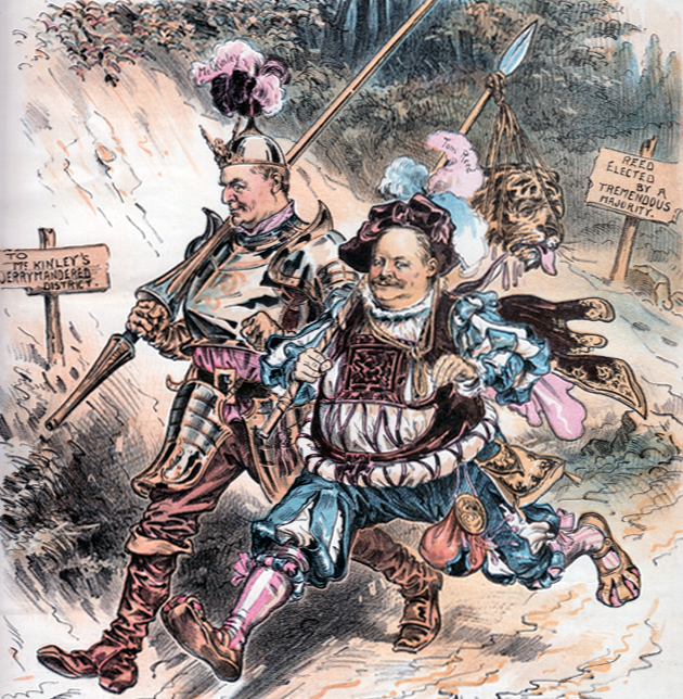 Cover of a September 1890 Judge magazine, showing Speaker Thomas B. Reed of Maine hurrying off with his Ways and Means chair, William McKinley, hoping (as it would prove, in vain) to save McKinley's seat after McKinley helped Reed keep his seat (Maine then voted in September). From McKinley Presidential Library, Canton OH